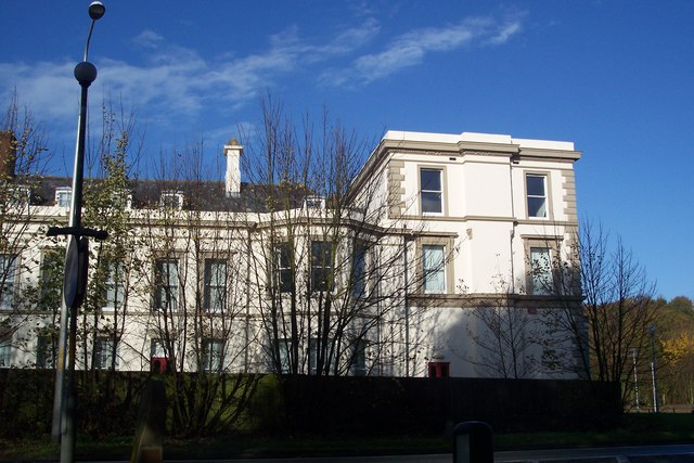 Hall Place Enterprise Centre A 16th century building in Harbledown on the A2050. It has been renovated and renamed Hall Place Enterprise Centre. It is home to the Centre for Enterprise and Business Development for Canterbury Christ Church University , the gateway for business support and access to academic resources and training programmes for small businesses. Was at one stage a headquarters of a local building firm (Ballast Wiltshire Construction South). for more details.